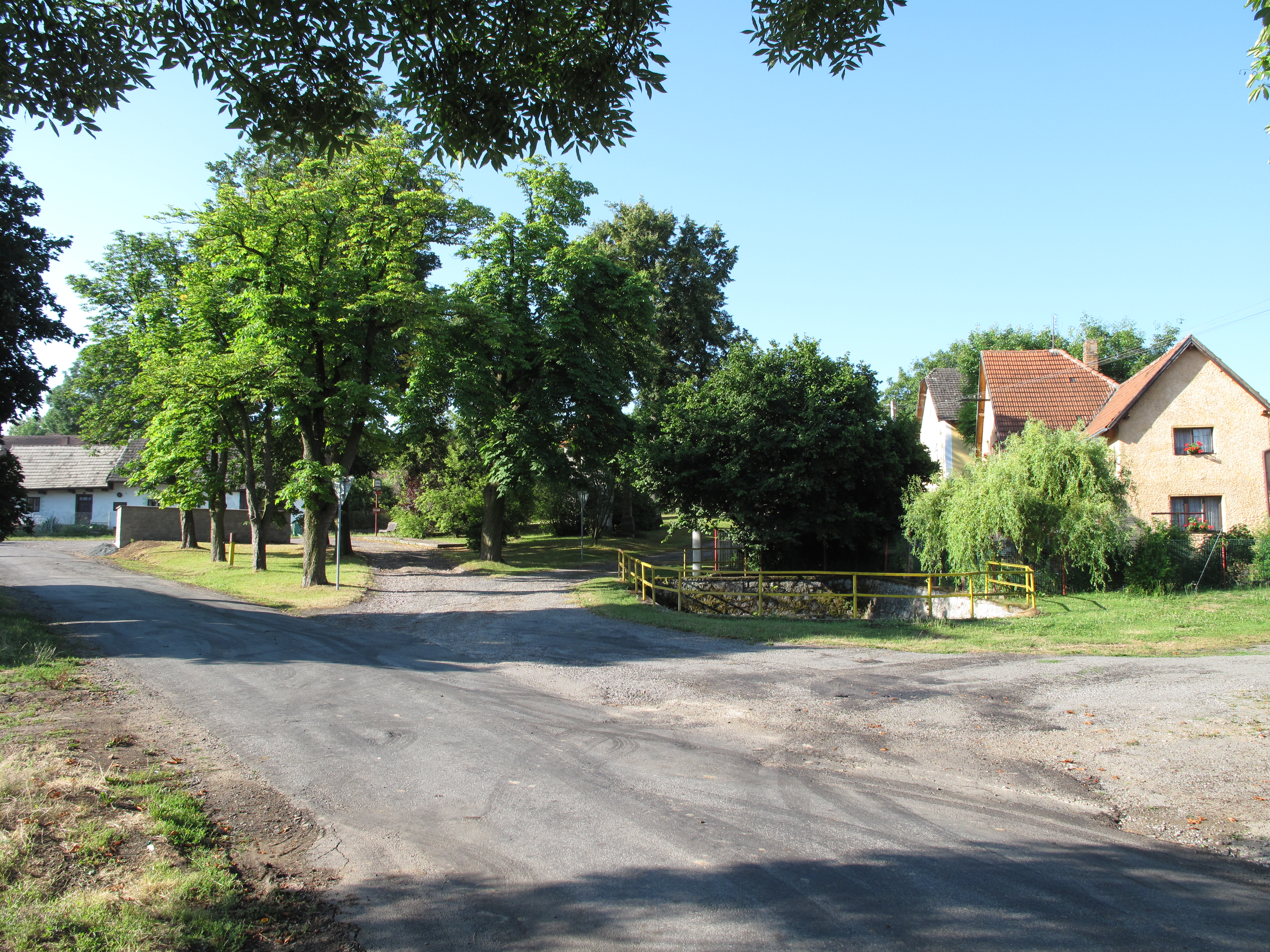 Samechov village, Benešov District, Czech Republic.